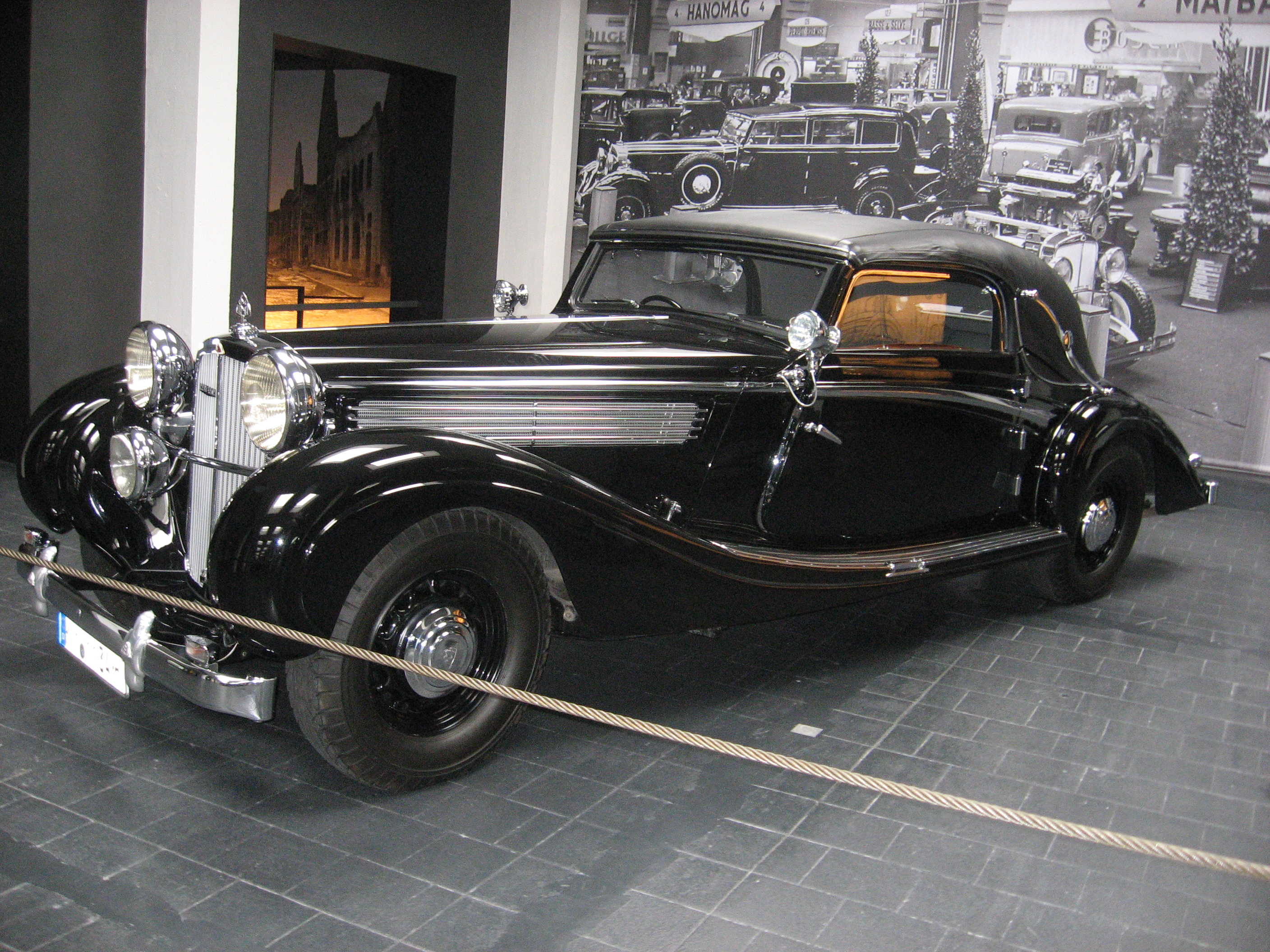 Subject: Maybach SW38 Roadster Date:: June 11th, 2011 Place/Country: Maybach Museum, Neumarkt in der Oberpfalz, Germany I release all rights in the public domain.